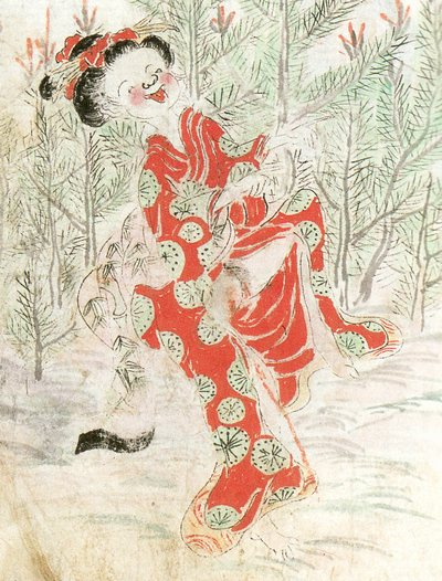 Waraionna (笑い女) from the "Tosa bakemono ehon" (土佐化物絵本, Japanese picture)